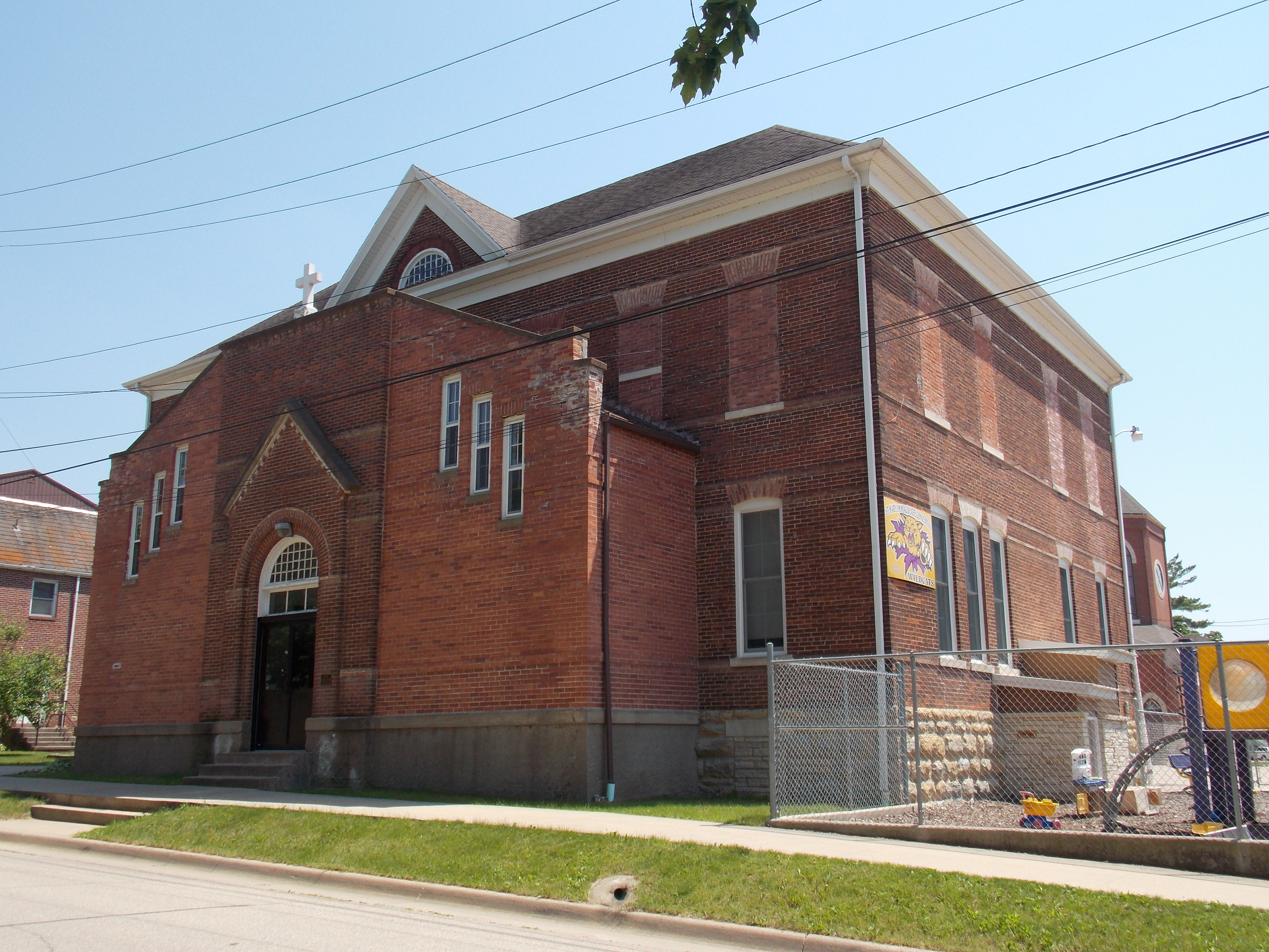 The church in the St. Mary's Catholic Church Historic District.